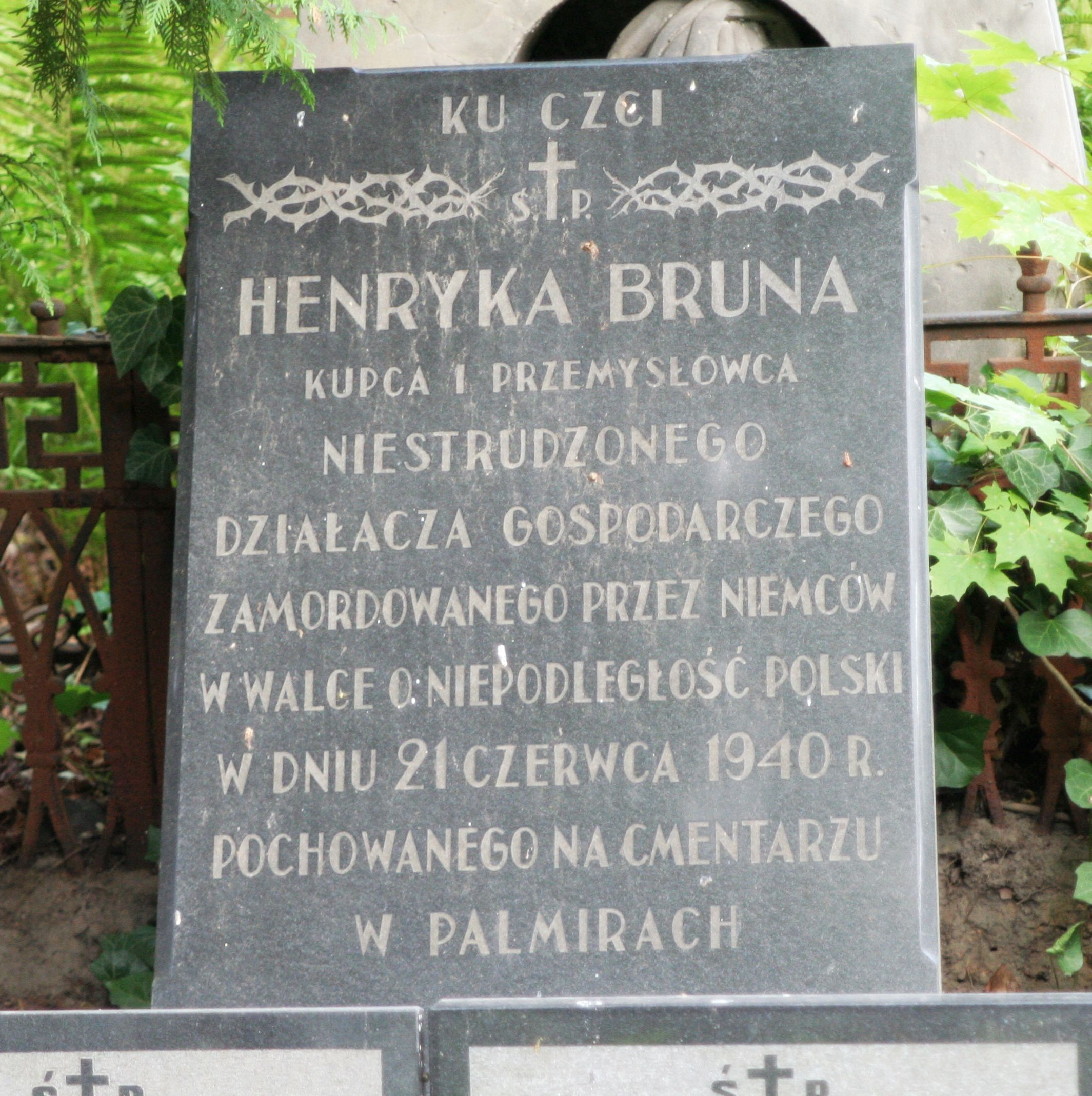 Henryk Brun's memorial plaque at Evangelical-Augsburg Cemetery in Warsaw .